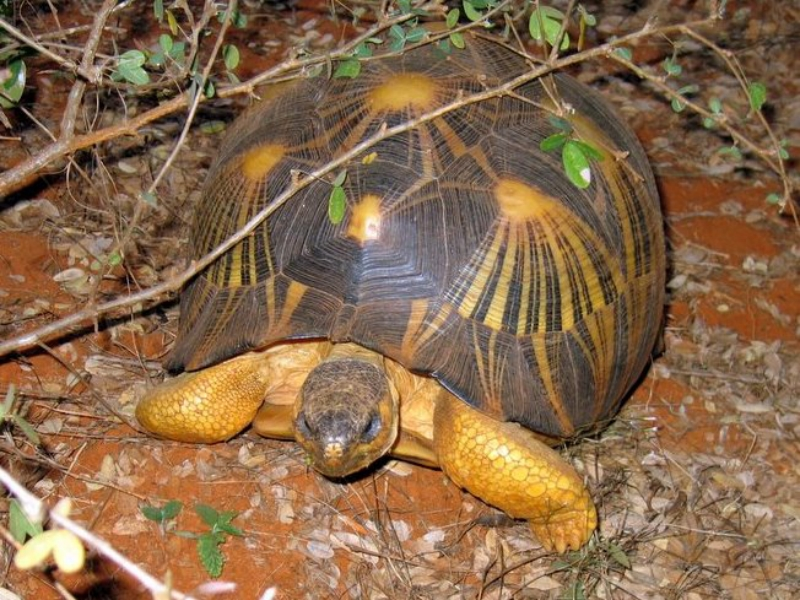 Astrochelys radiata